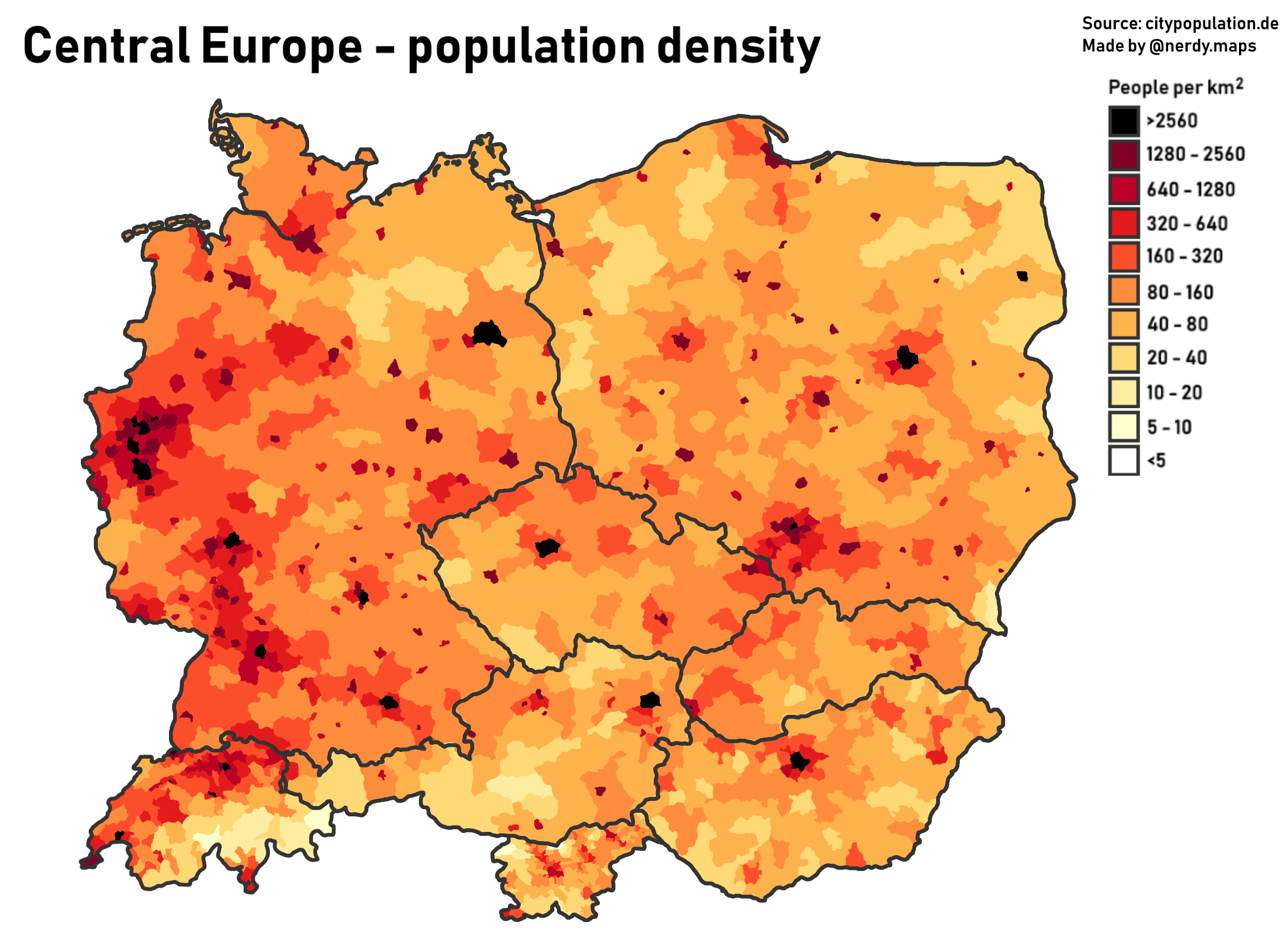 A map representing the population density in Central European countries (Austria, the Czech Republic, Germany, Hungary, Poland, Slovakia, Slovenia, Switzerland), by their second-order subdivisions.